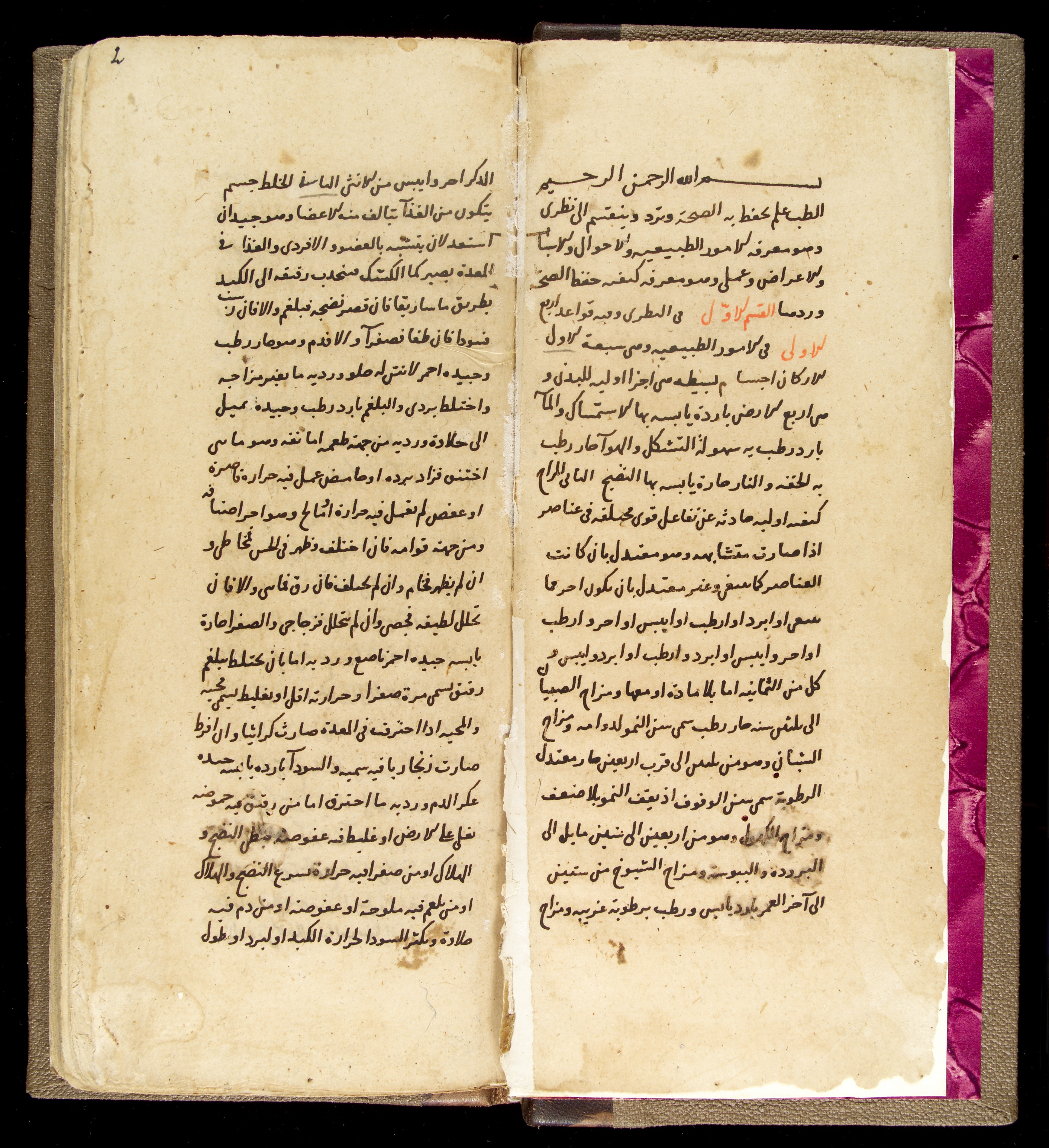 Page from Kitab Tibb al-Fuqara' wa-l-Masakin, an Arabic medical text in naskh script, Asian Collection Keywords: Arabic